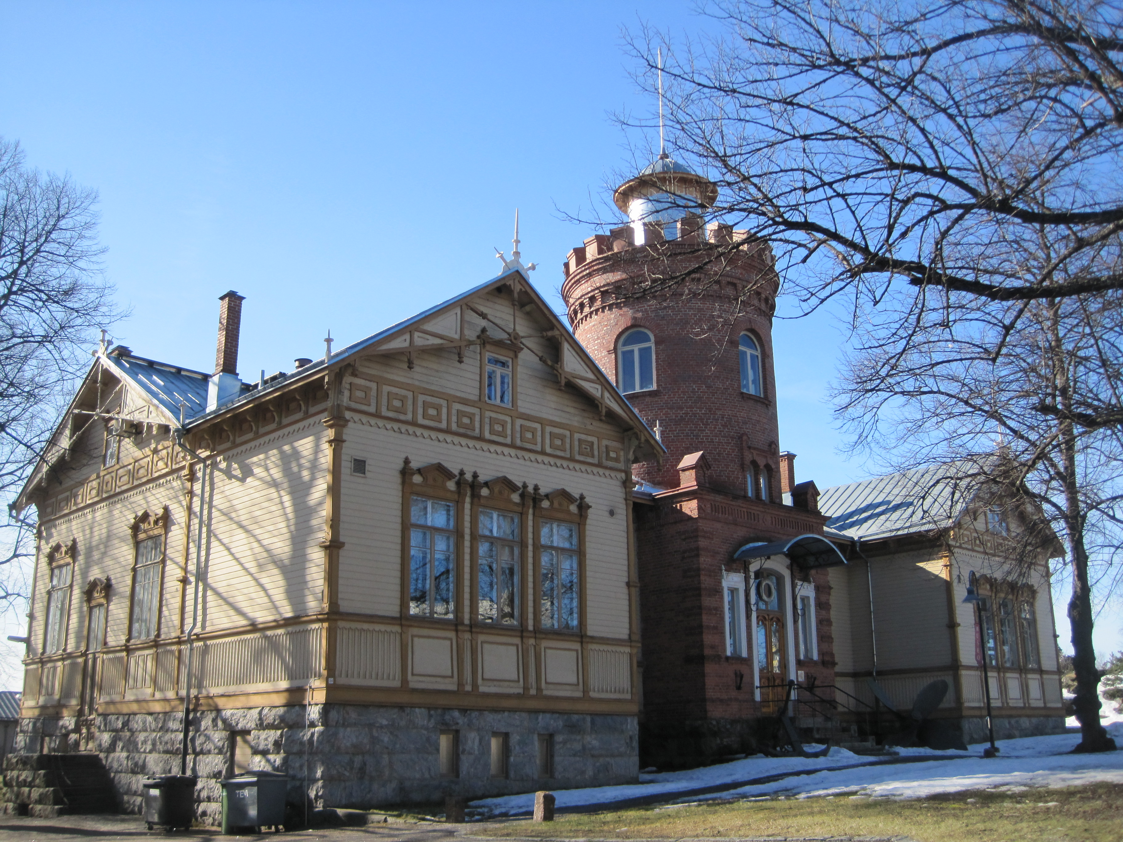 Maritime museum, Rauma, Finland check usage